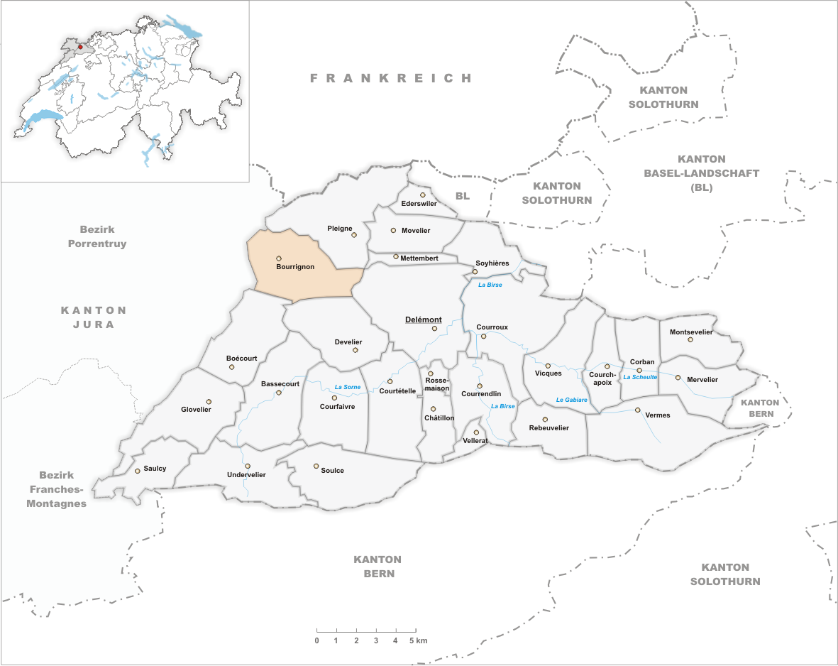 Municipality Bourrignon